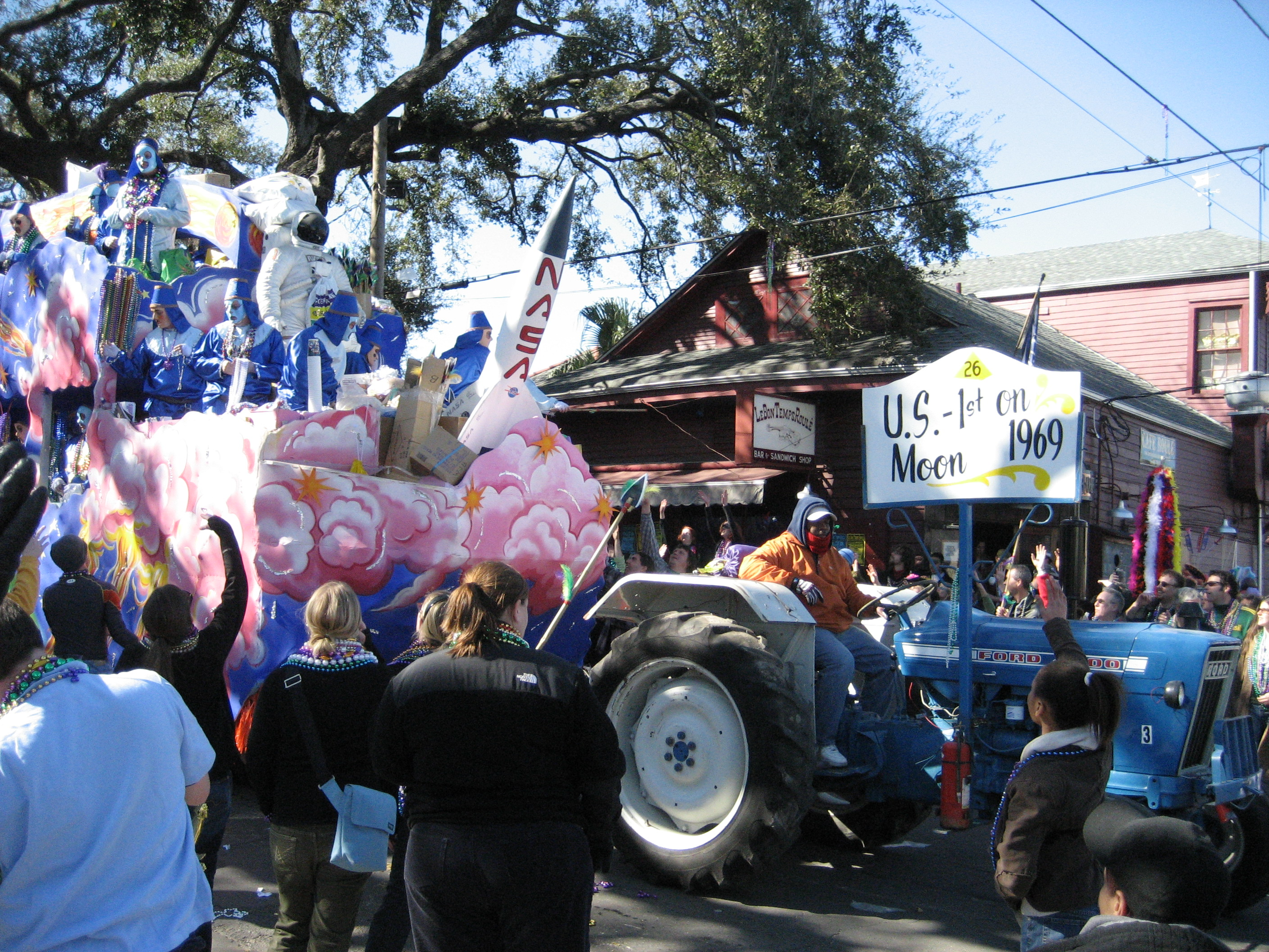 New Orleans: Krewe of Thoth Mardi Gras parade on Magazine Street.